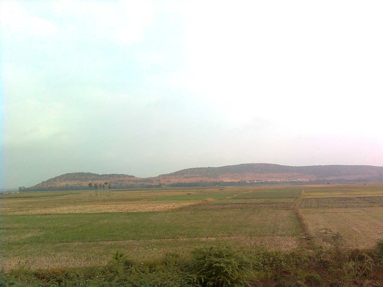 Fields near Nuzvid, Krishna district